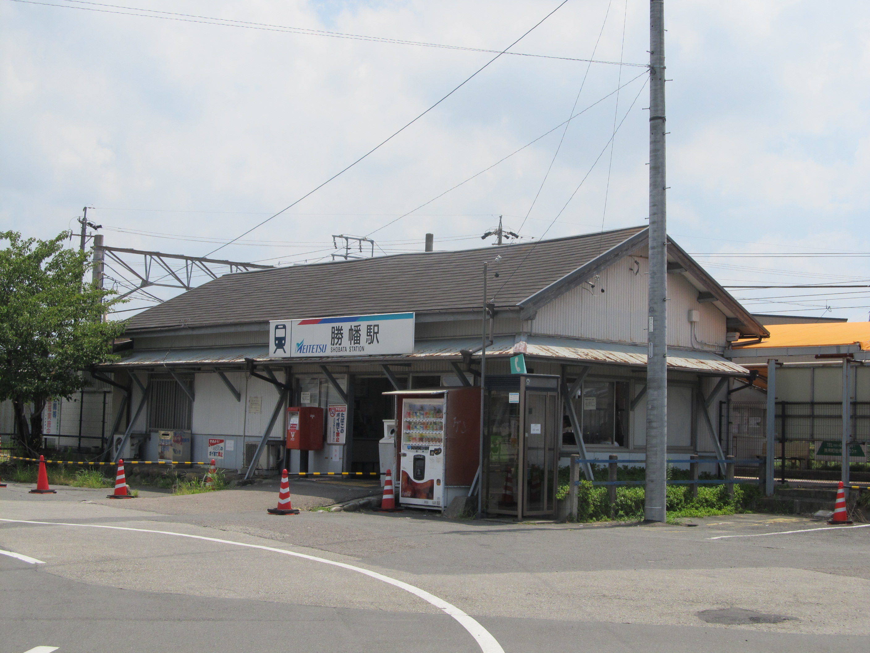 Nagoya Railroad Tsushima Line Shobata Station Building